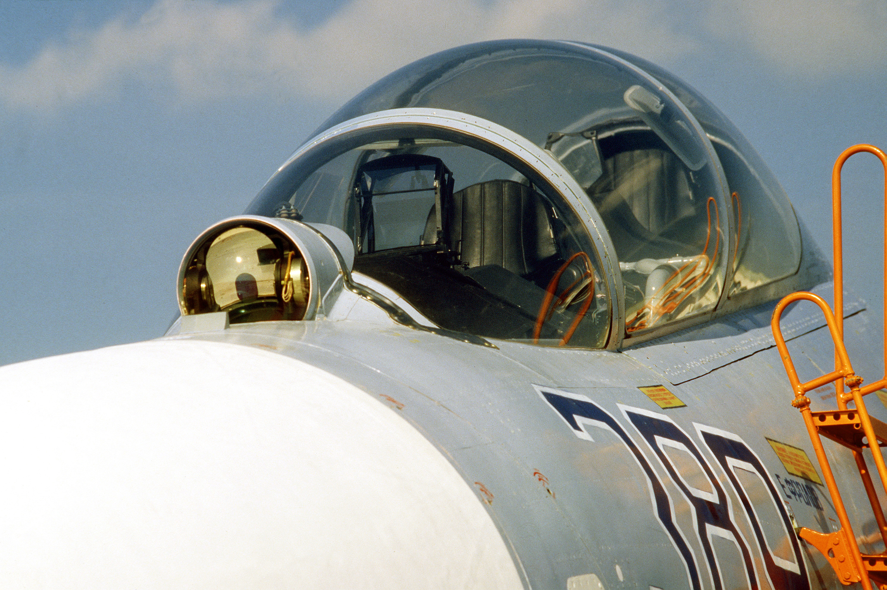 A close-up view of the canopy and surrounding area of a Soviet SU-27UB FLANKER aircraft exhibited at the 38th Paris International Air and Space Show at Le Bourget Airfield.